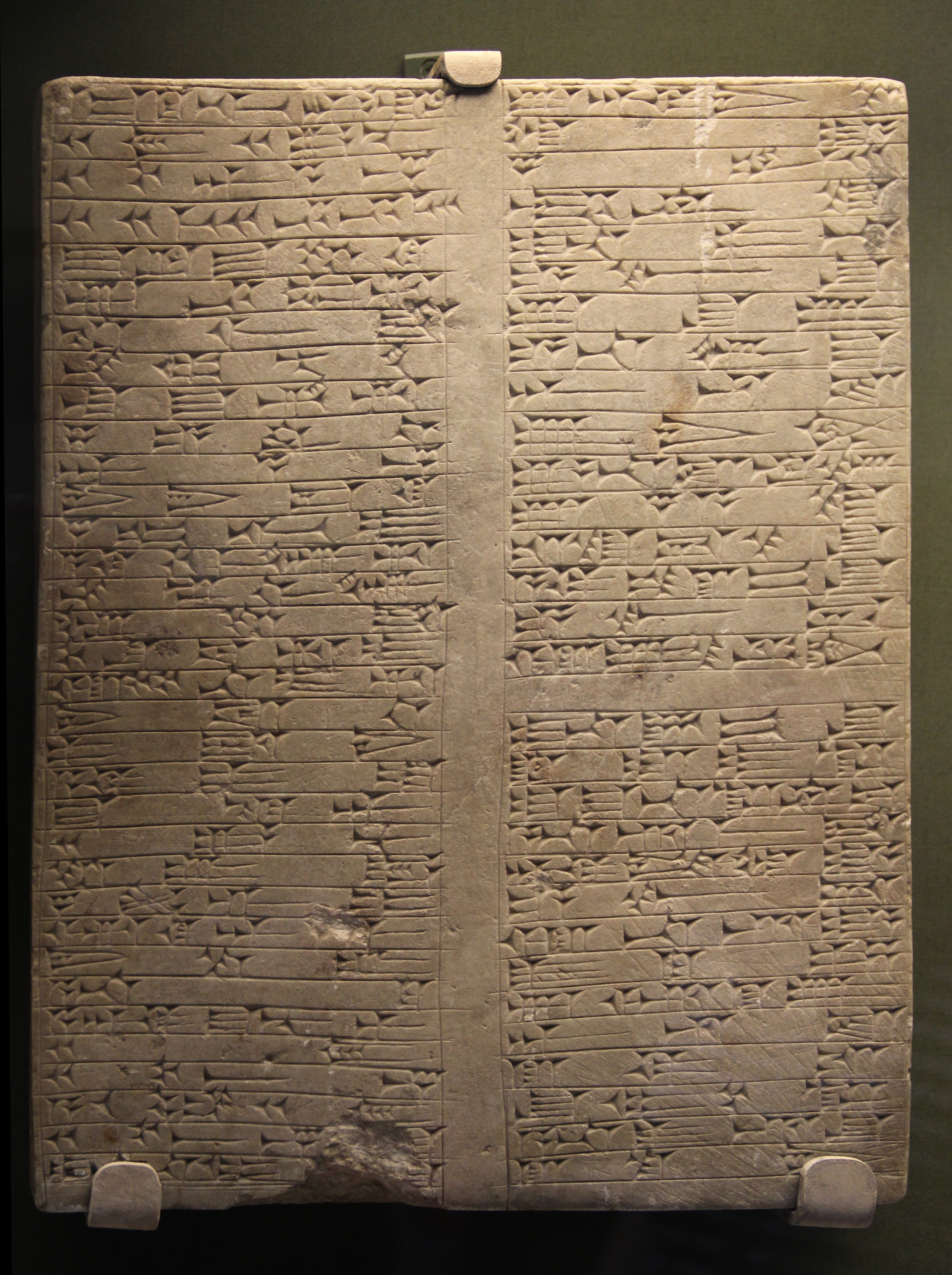 Assyrian Cuneiform Script Mesopotamia 1500-539 BC Gallery, British Museum, London, England, UK. Complete indexed photo collection at . Describes how Tukulti-Ninurta I (1243–1207 BC) rebuilt the temple of the goddess Dinitu from its foundations. The inscription is unusual in including at the end the name of Ubrum, the scribe responsible for writing it. " I built within a lofty dais and an awesome sanctuary for the abode of the goddess Dinitu, my mistress, and deposited my stelas." [1]